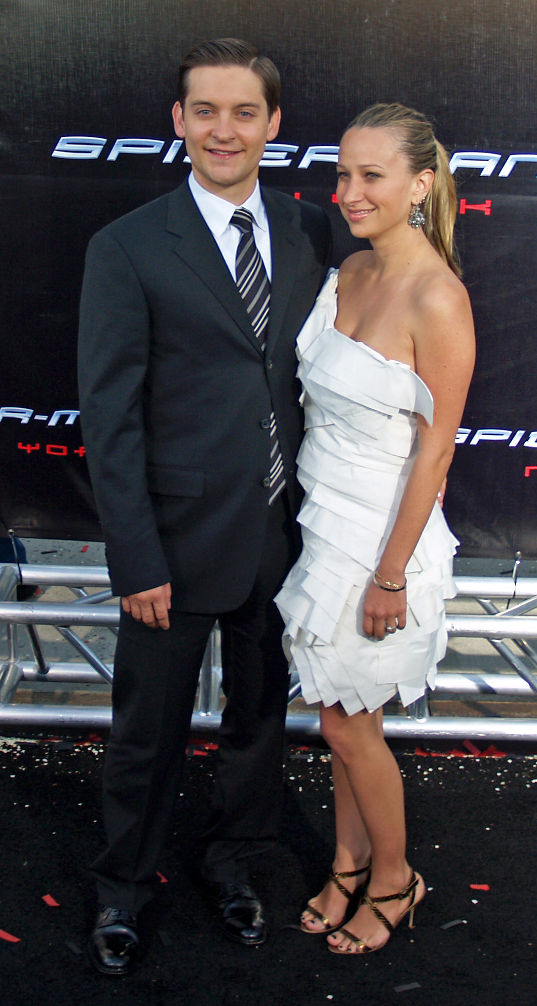 American actors Tobey Maguire and his wife Jennifer Meyer at the premiere of Spider-Man 3 in Queens, New York.